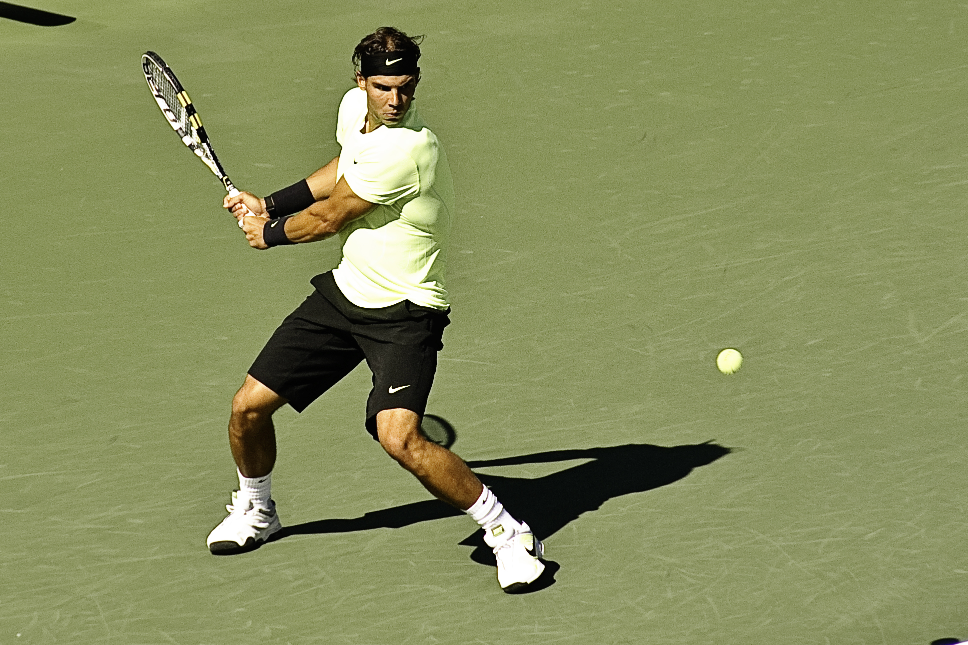 Rafael Nadal at the 2010 US Open